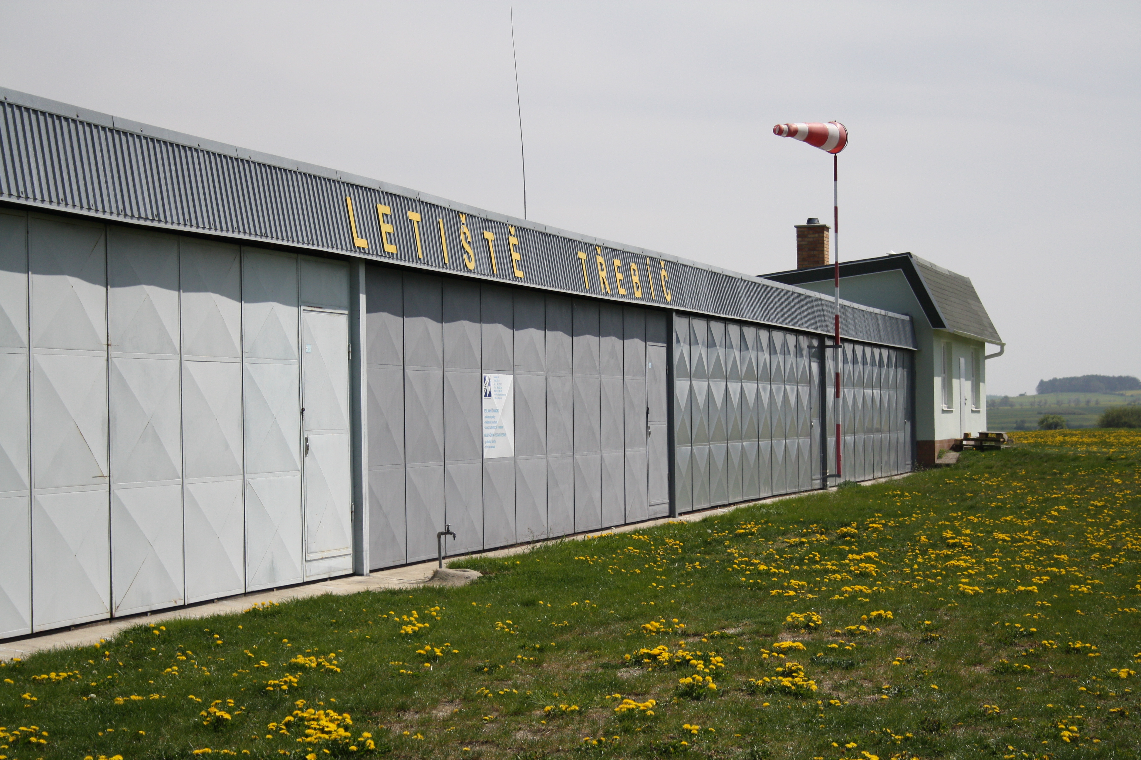 Main building of Třebíč Airport in Třebíč, Czech Republic in Spring 2009.